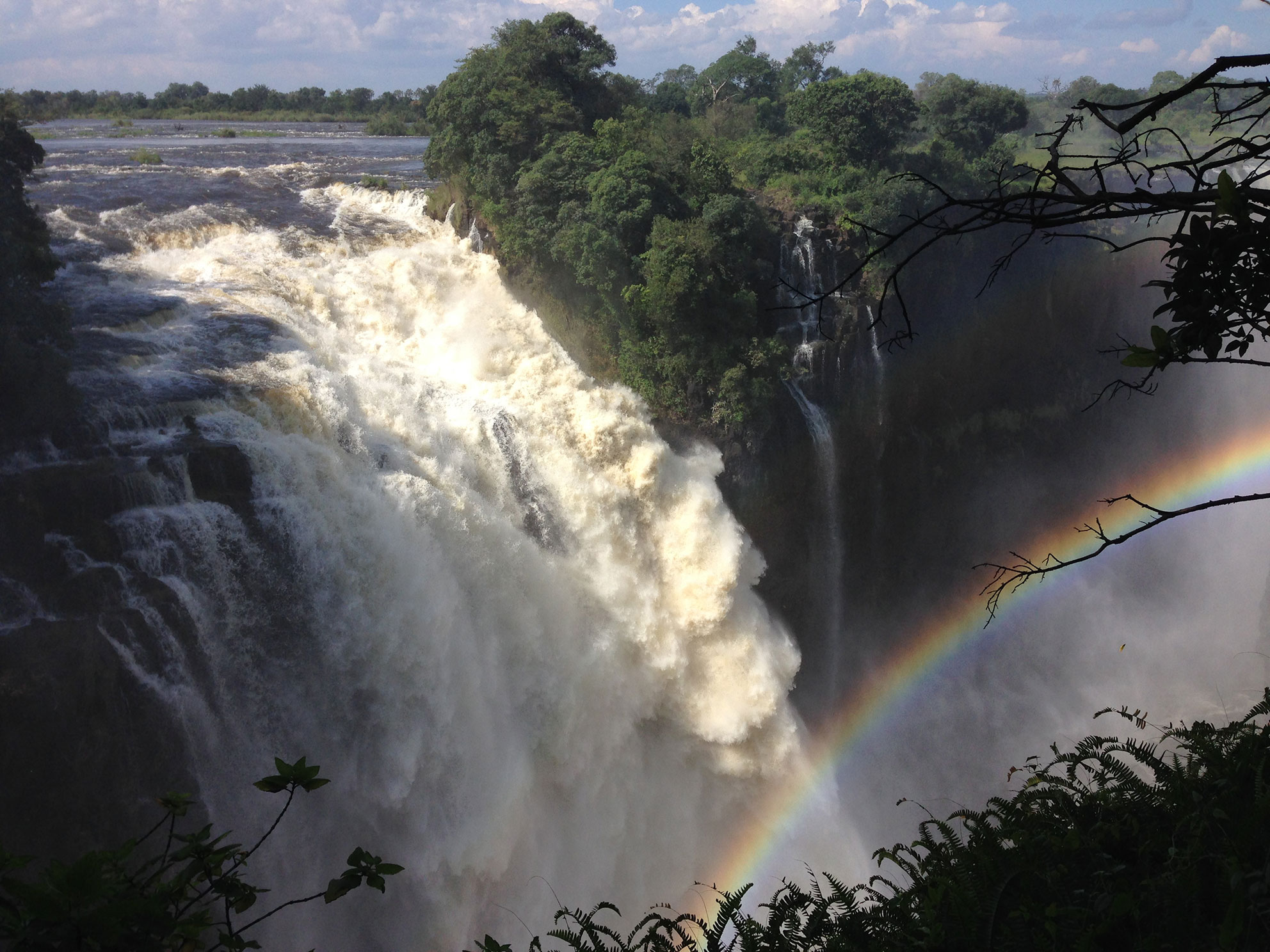 Victoria Falls, Zimbabwe, Devil’s Cataract (western part of the falls).